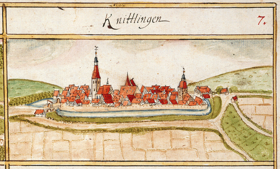 View of Knittlingen from the forest register books created by Andreas Kieser